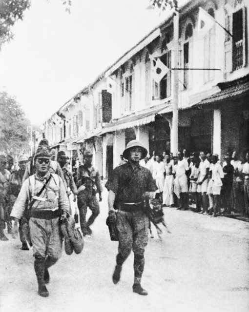 JAPANESE TROOPS MARCH THROUGH THE STREETS OF LABUAN ISLAND, OFF THE WEST COAST OF BRITISH NORTH BORNEO. NOTE THE JAPANESE FLAGS ON THE BUILDINGS.